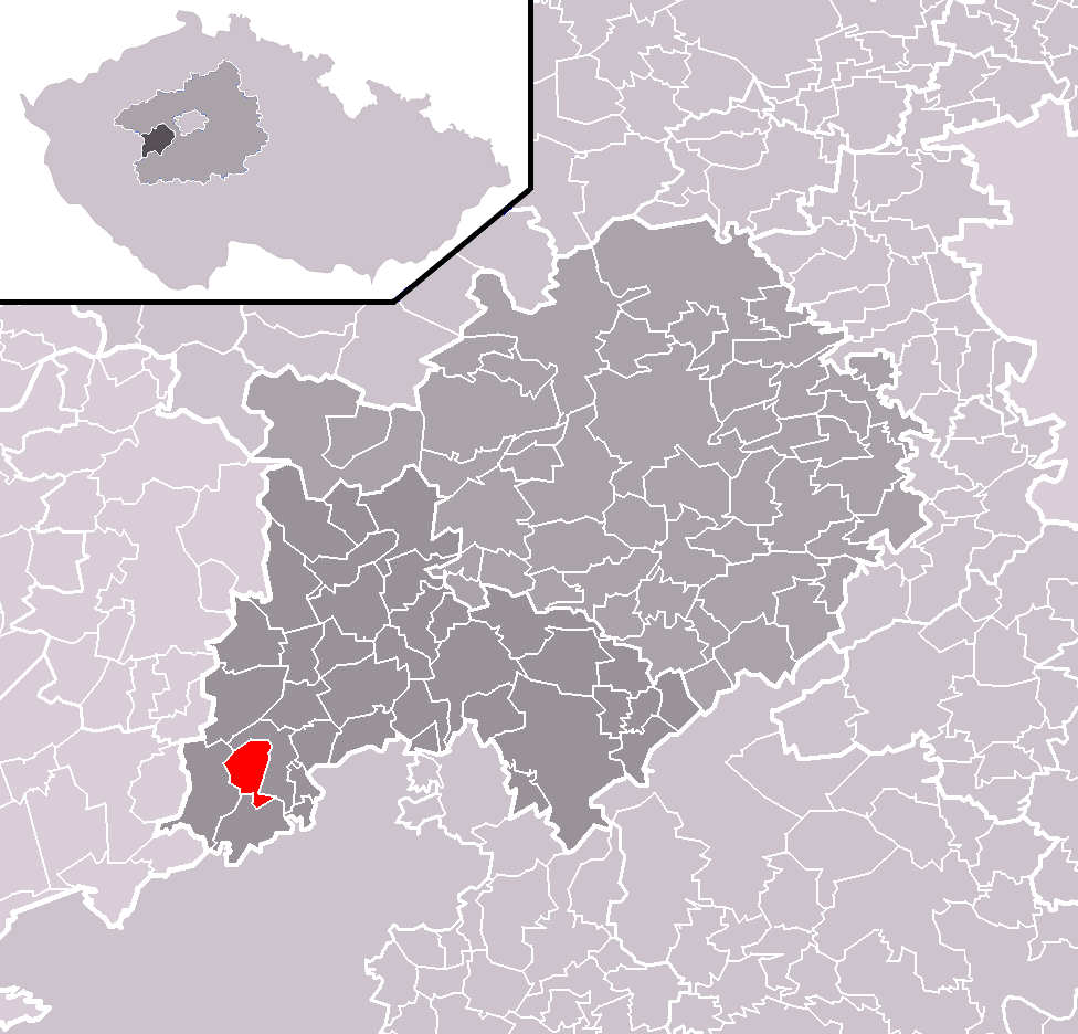 Location of Jivina municipality within Beroun District and administrative area of Hořovice as a Municipality with Extended Competence.